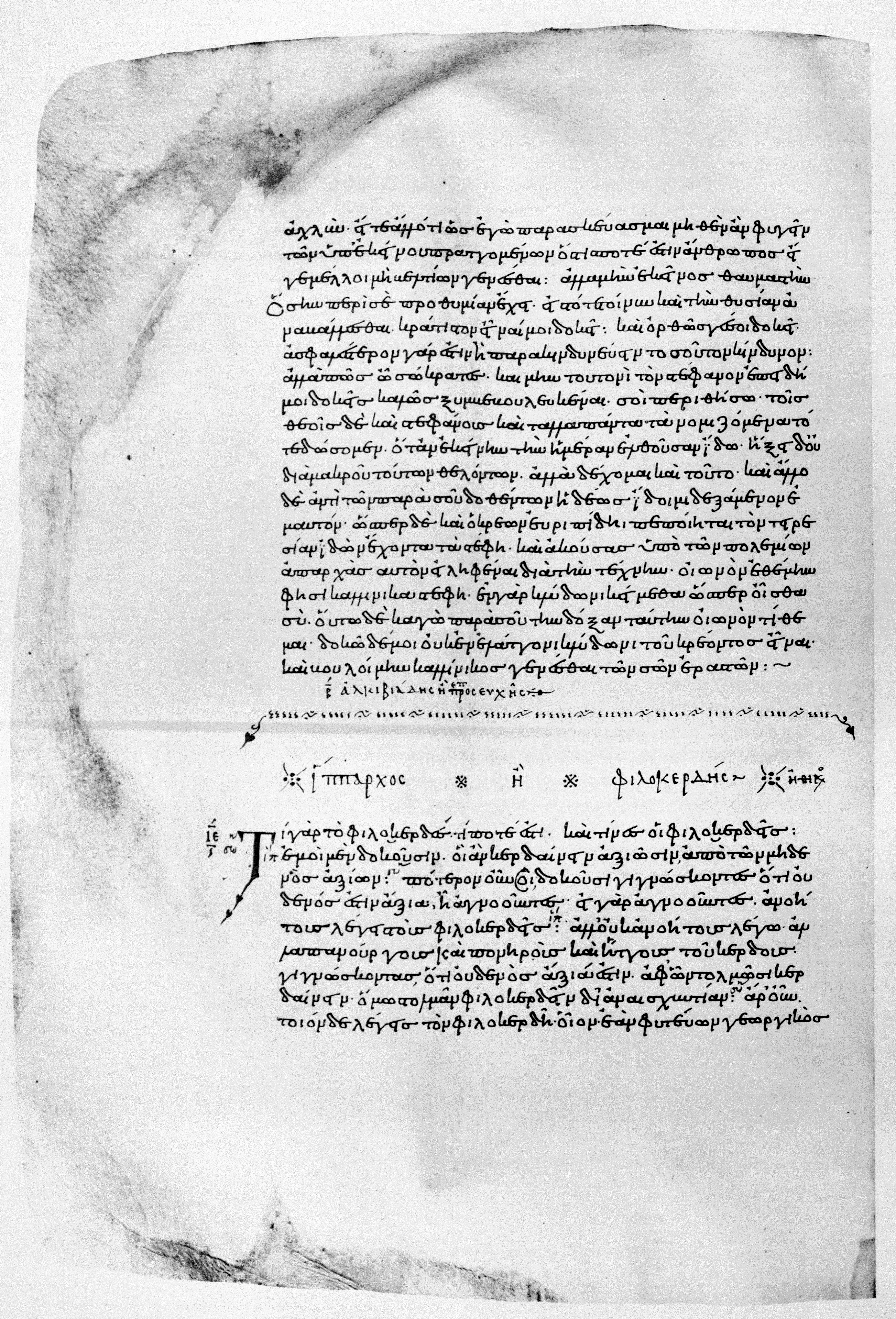 Page of the Codex Oxoniensis Clarkianus 39 (Clarke Plato). Dialogue Hipparchos.